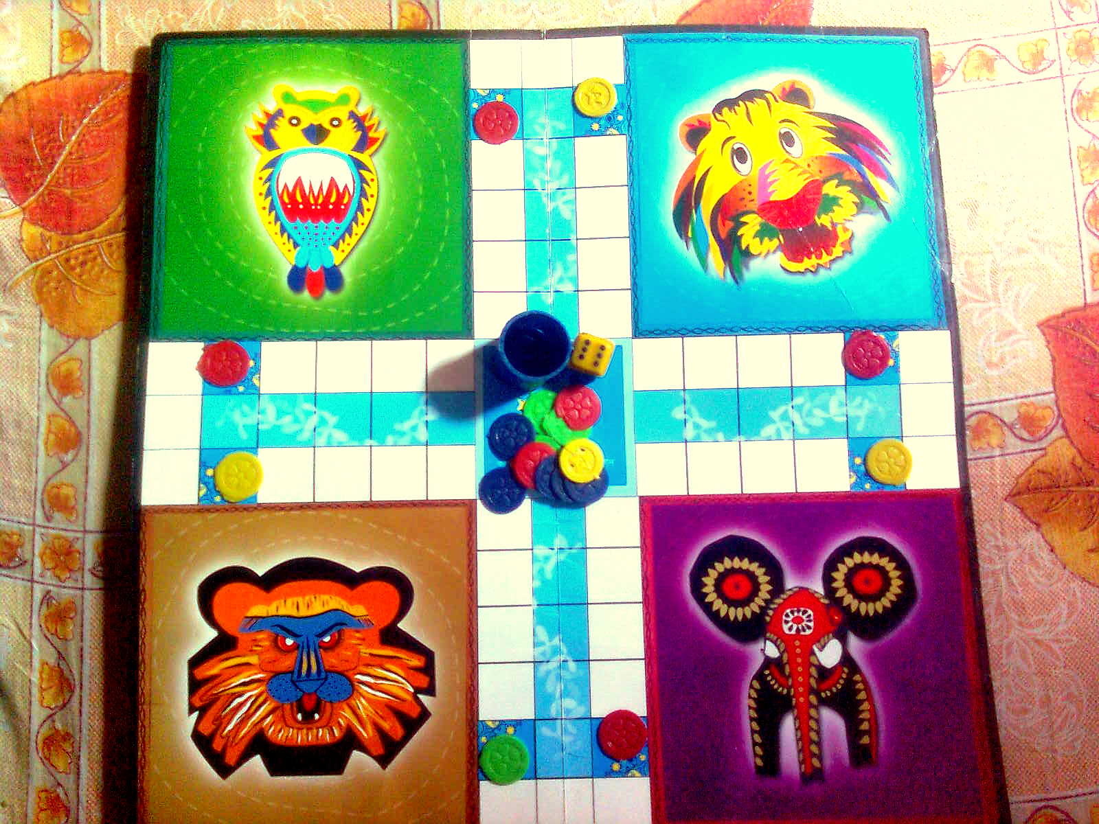 This is a picture of a popular game board in Bangladesh named "Ludu".